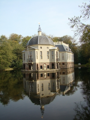 castle Trompenburgh 's Graveland